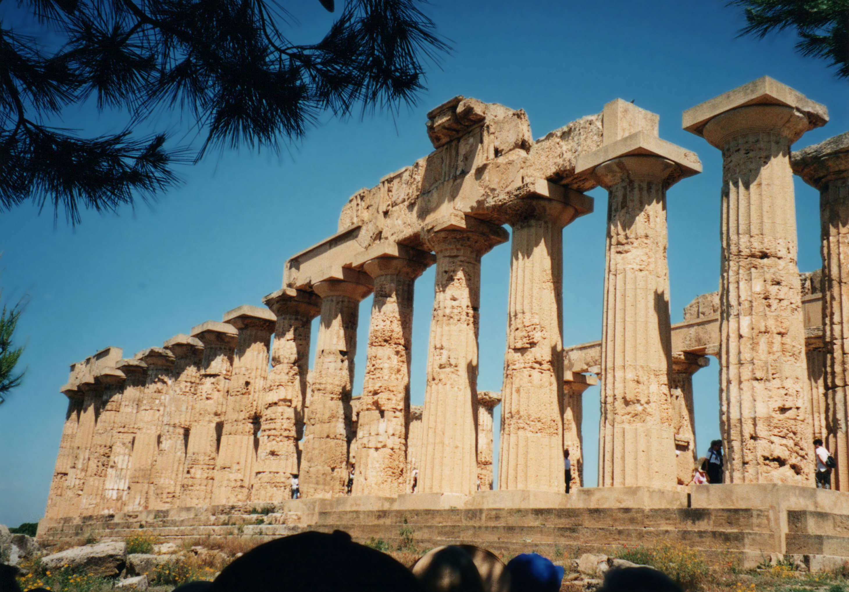 Selinunte. Temple E The temple's entasis (upward swelling from the base) is very noticable from this angle.